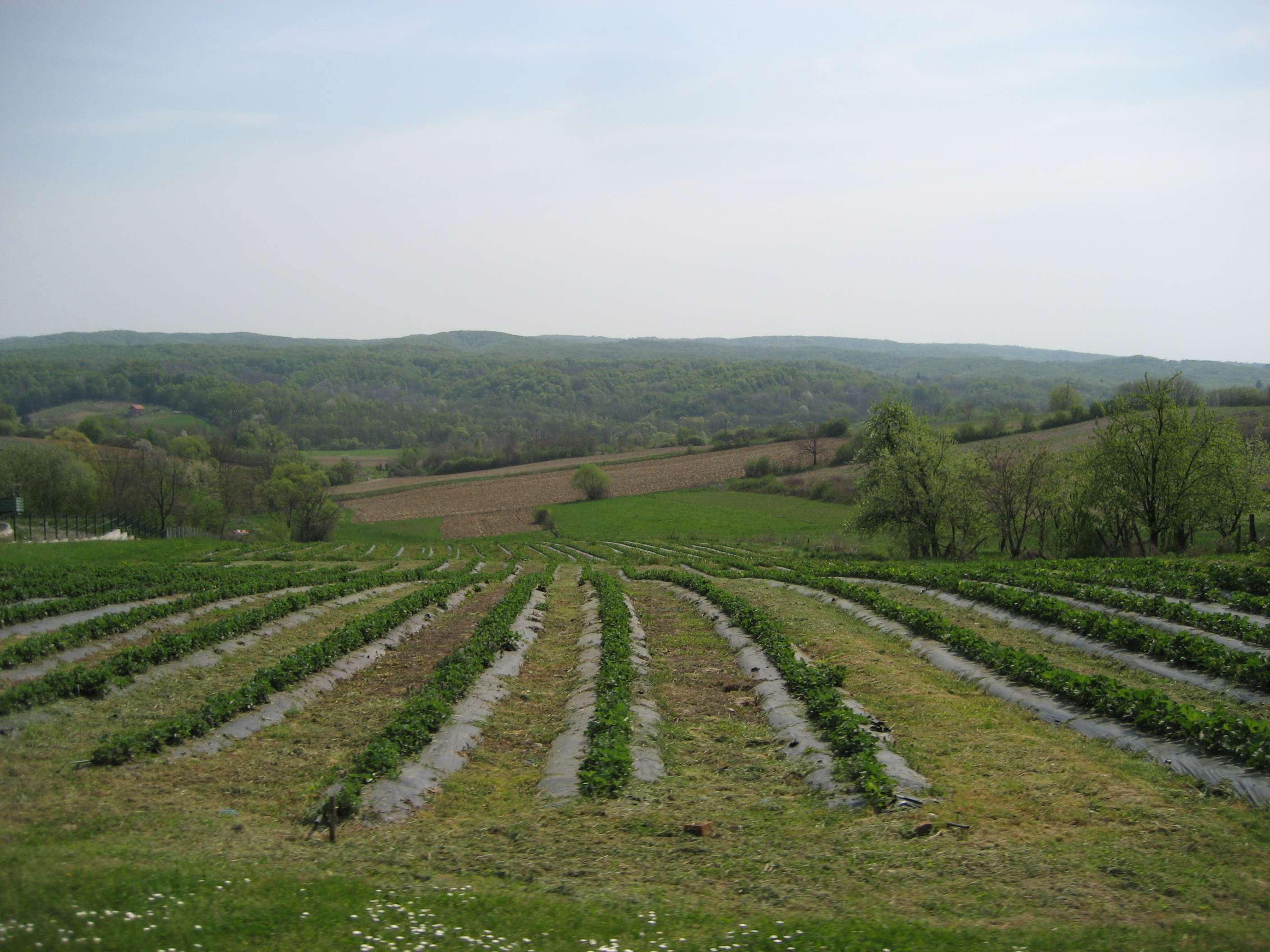 Moslavacka gora